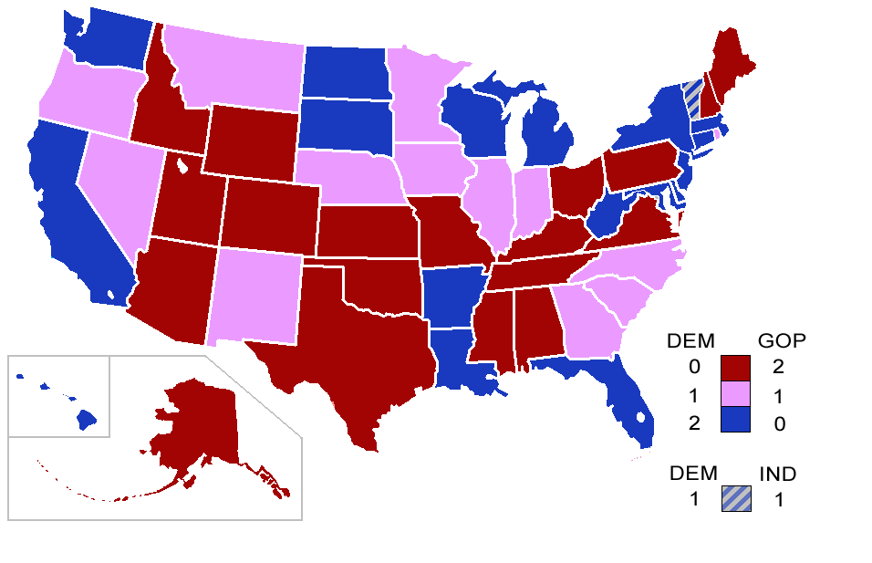 108th United States Congress's Senate composition by party.